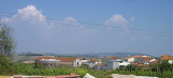 Viewpoint